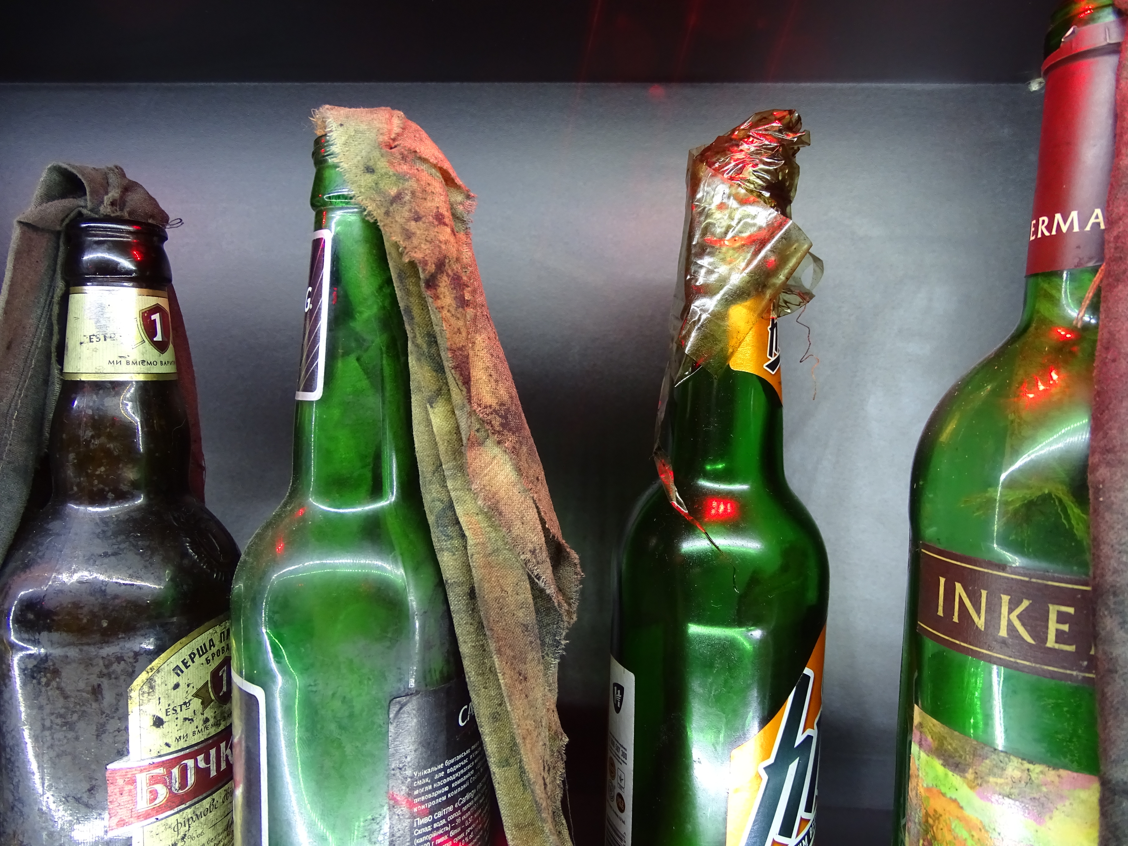 Molotov Cocktails from Euromaidan Protests - Regional History Museum - Zaporozhye - Ukraine